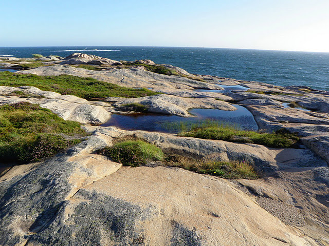 Guttormstangen, Ytre Hvaler national park